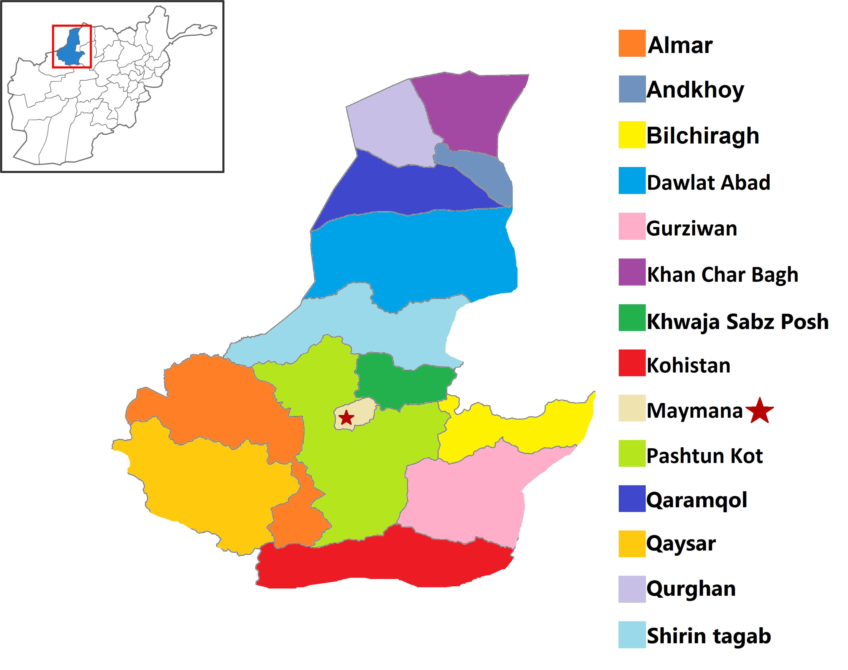 Shows the list and location of the districts of Faryab province in it's map, list is according to Alphabet.